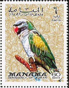 Lord Derby's parakeet on postage stamp